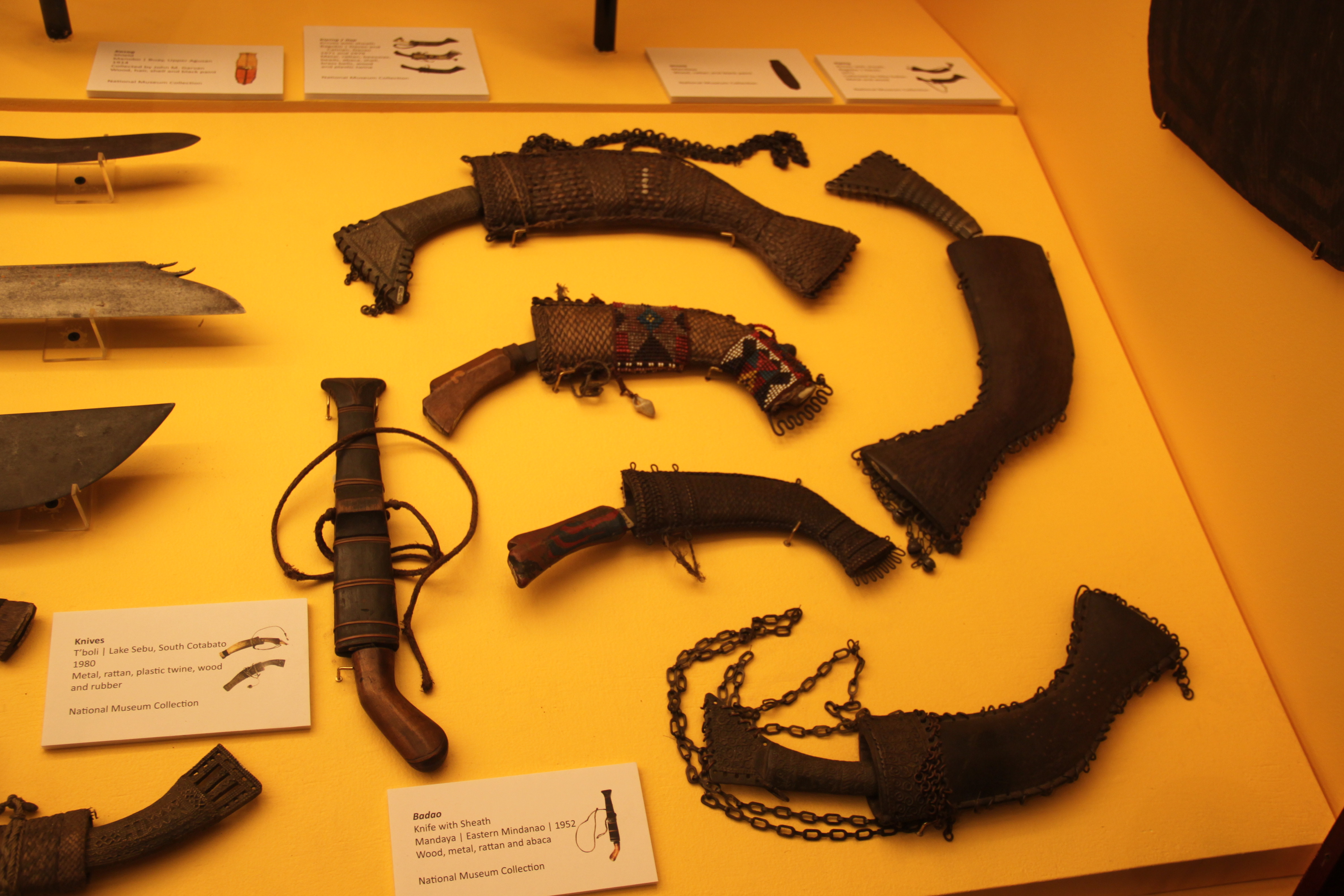 Lumad (Mandaya and T'boli) badao daggers Bangsamoro and Lumad Cultures Gallery, Museum of the Filipino People, Rizal Park, Manila, Philippines. Complete indexed photo collection at .